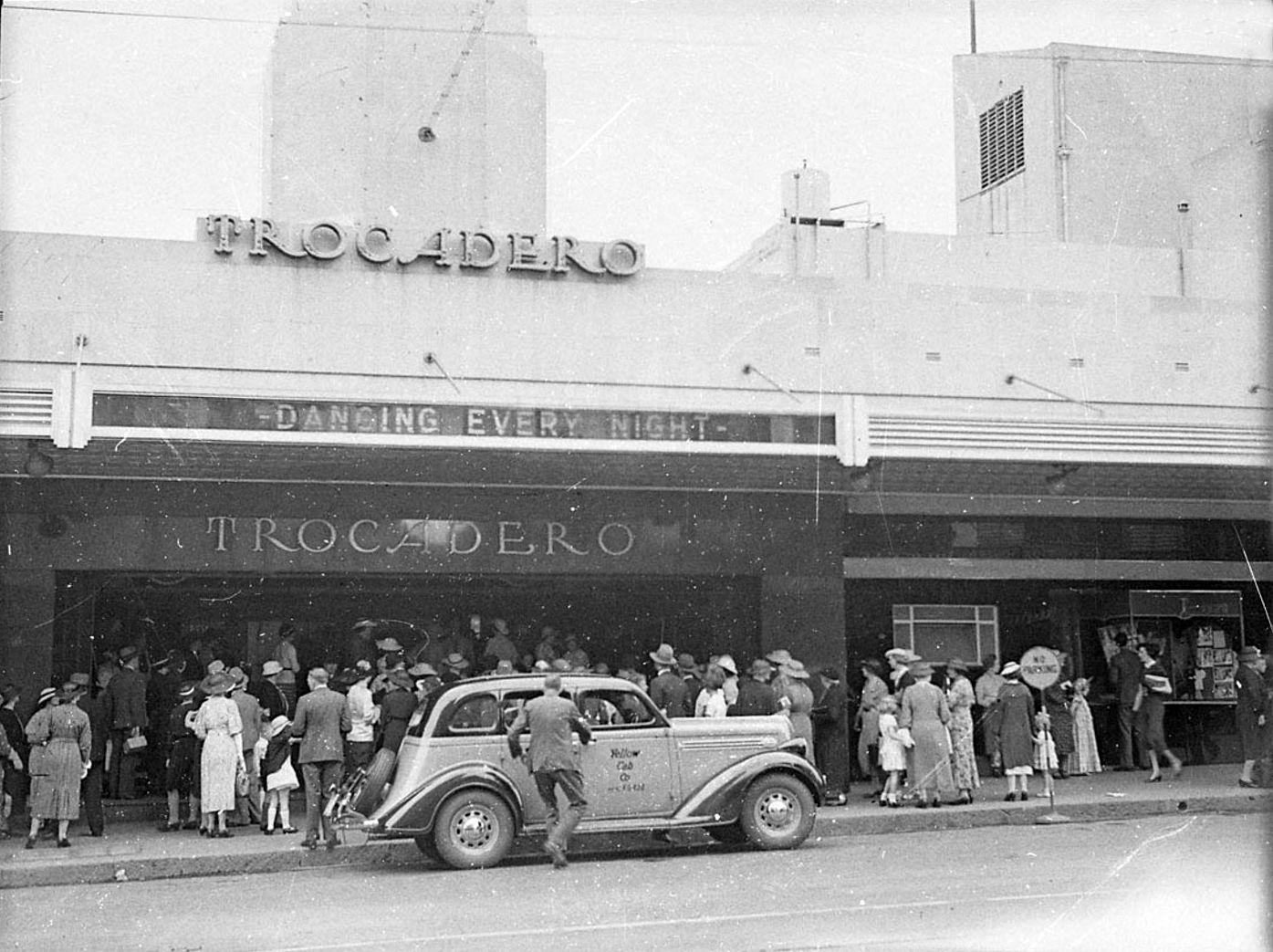 Radio station 2CH's Children's Christmas party at the Trocadero Ballroom in Sydney, 1936.